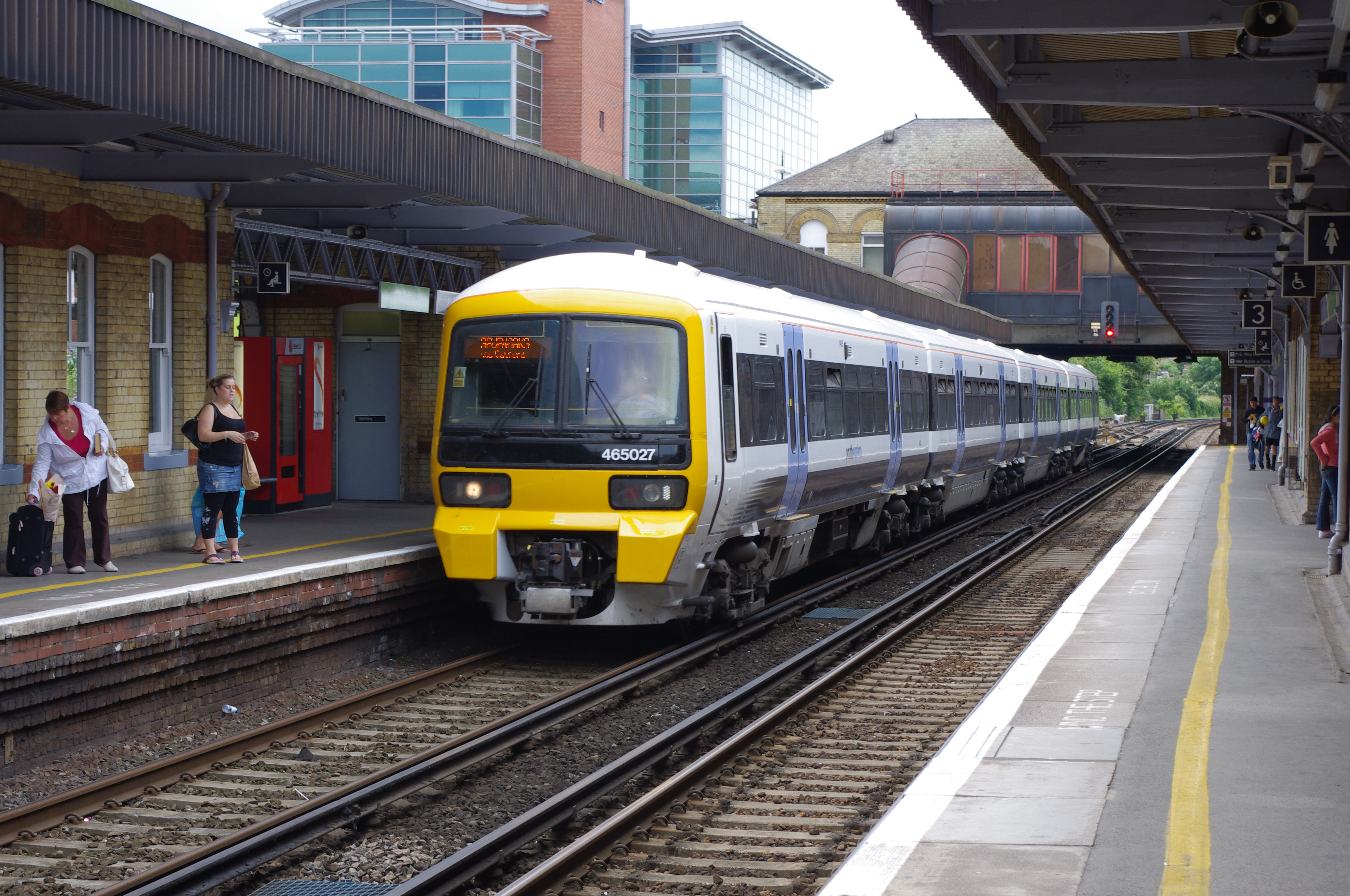 465027 Arrives at Bromley South